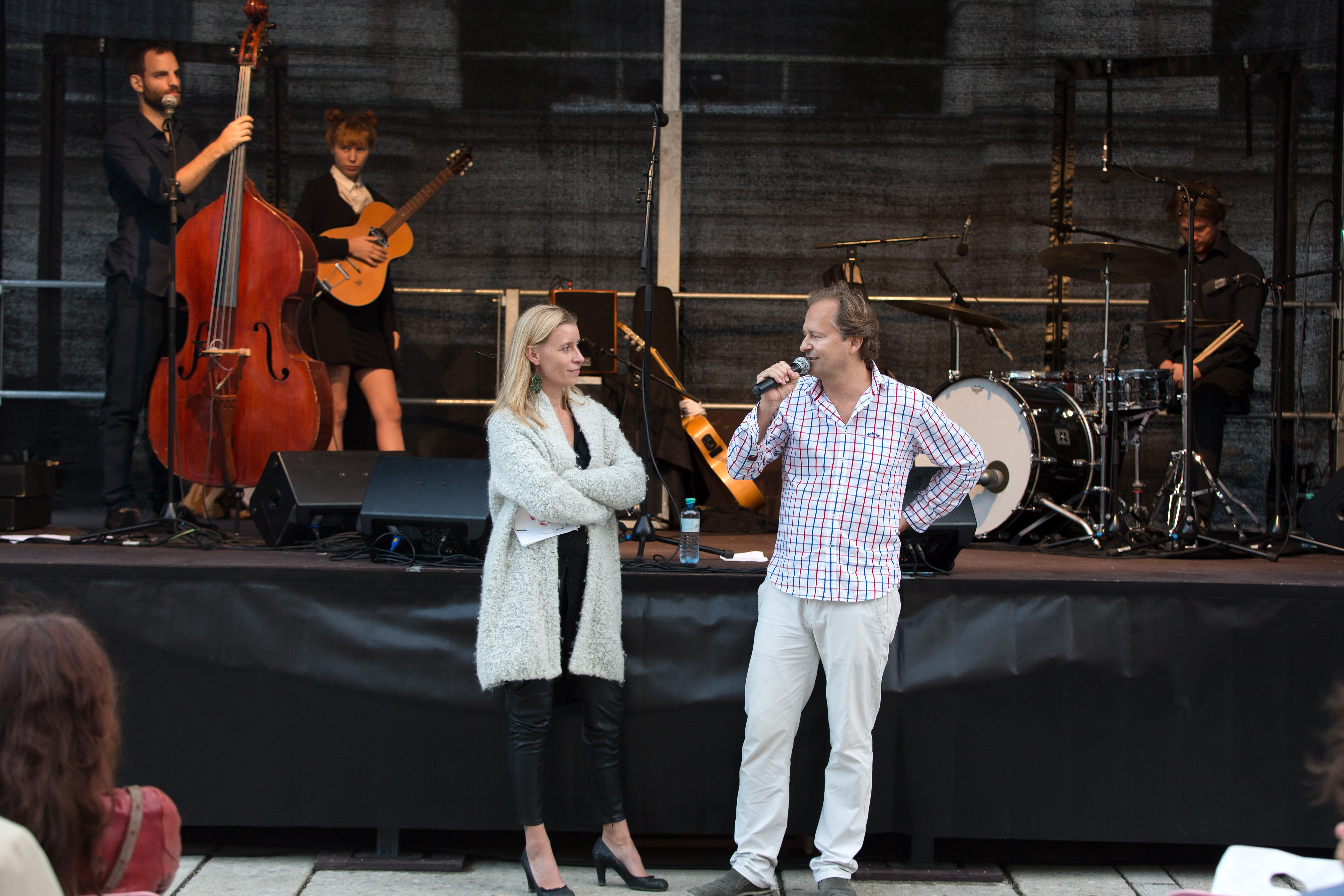 Gabriela Hegedüs and Christoph Möderndorfer opening the literary festival o-töne 2015, on stage: Schmieds Puls; Museumsquartier in Vienna, Austria.